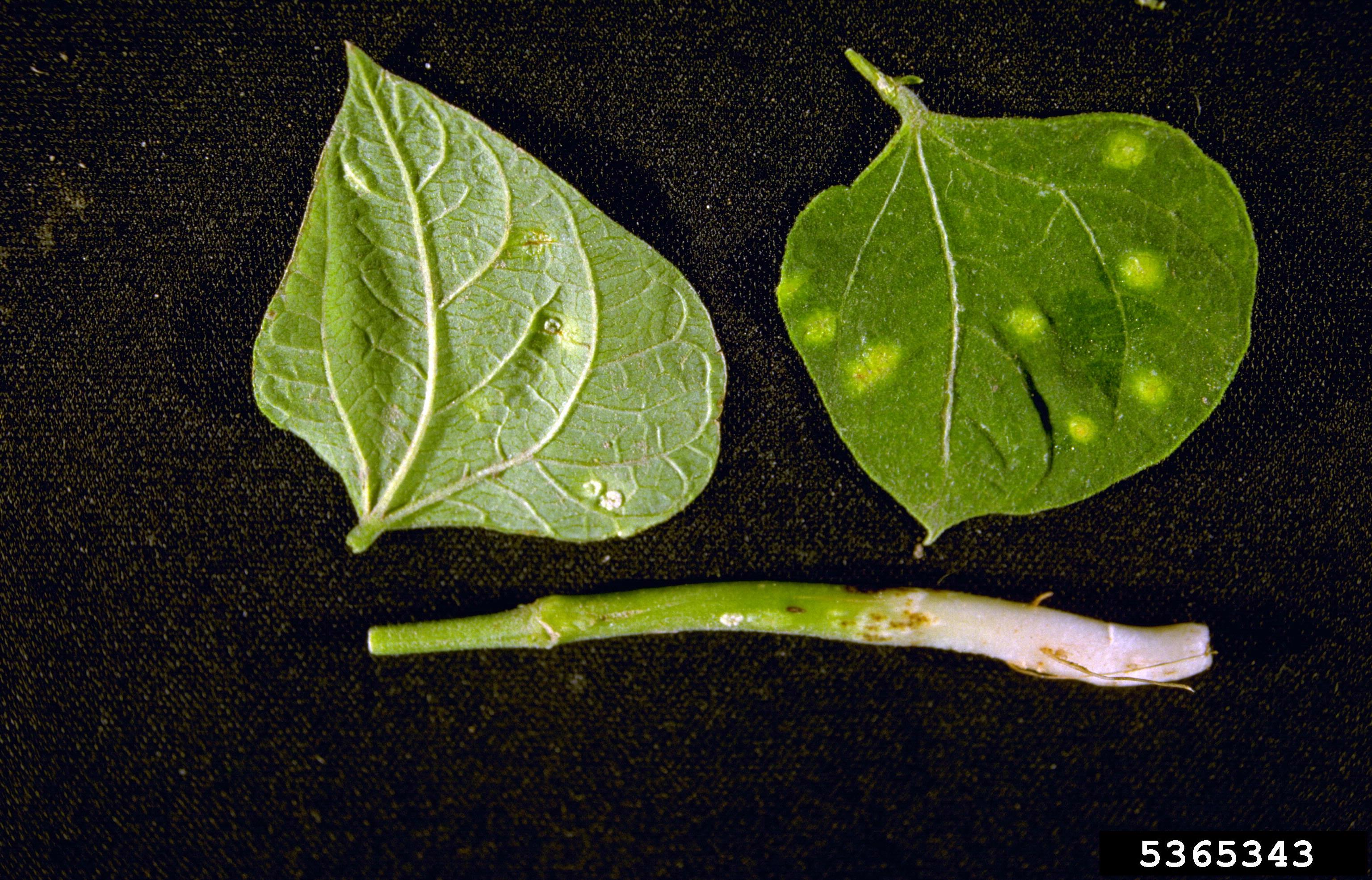 Uromyces appendiculatus, Aecia and pycnia